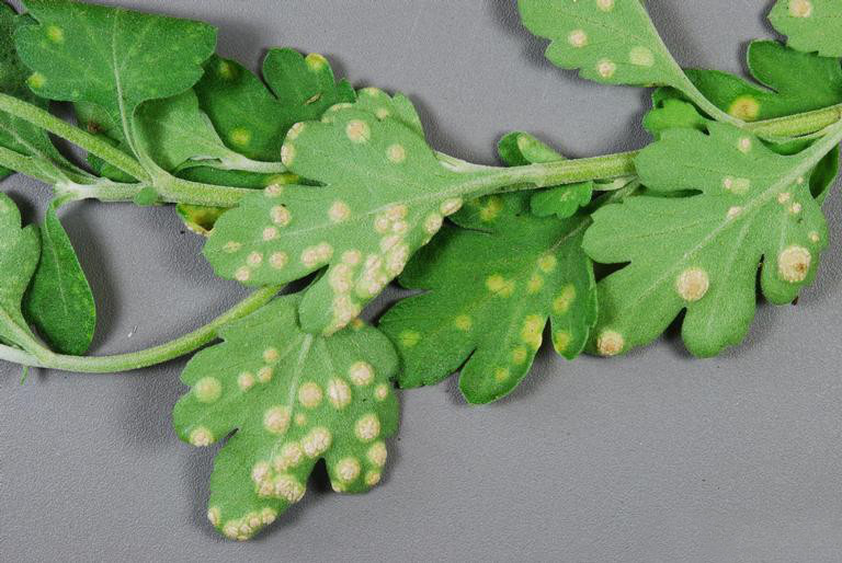 Chrysanthemum white rust (Symptoms) Puccinia horiana P. Hennings Image location: Delaware, United States